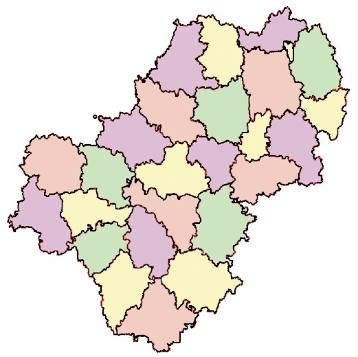 Map of Kaluga oblast russia